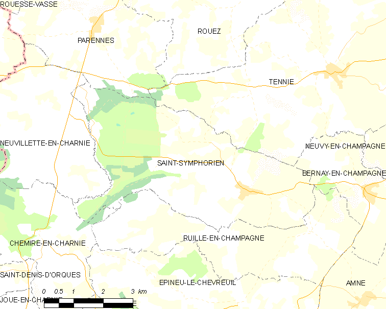 Map of French municipality